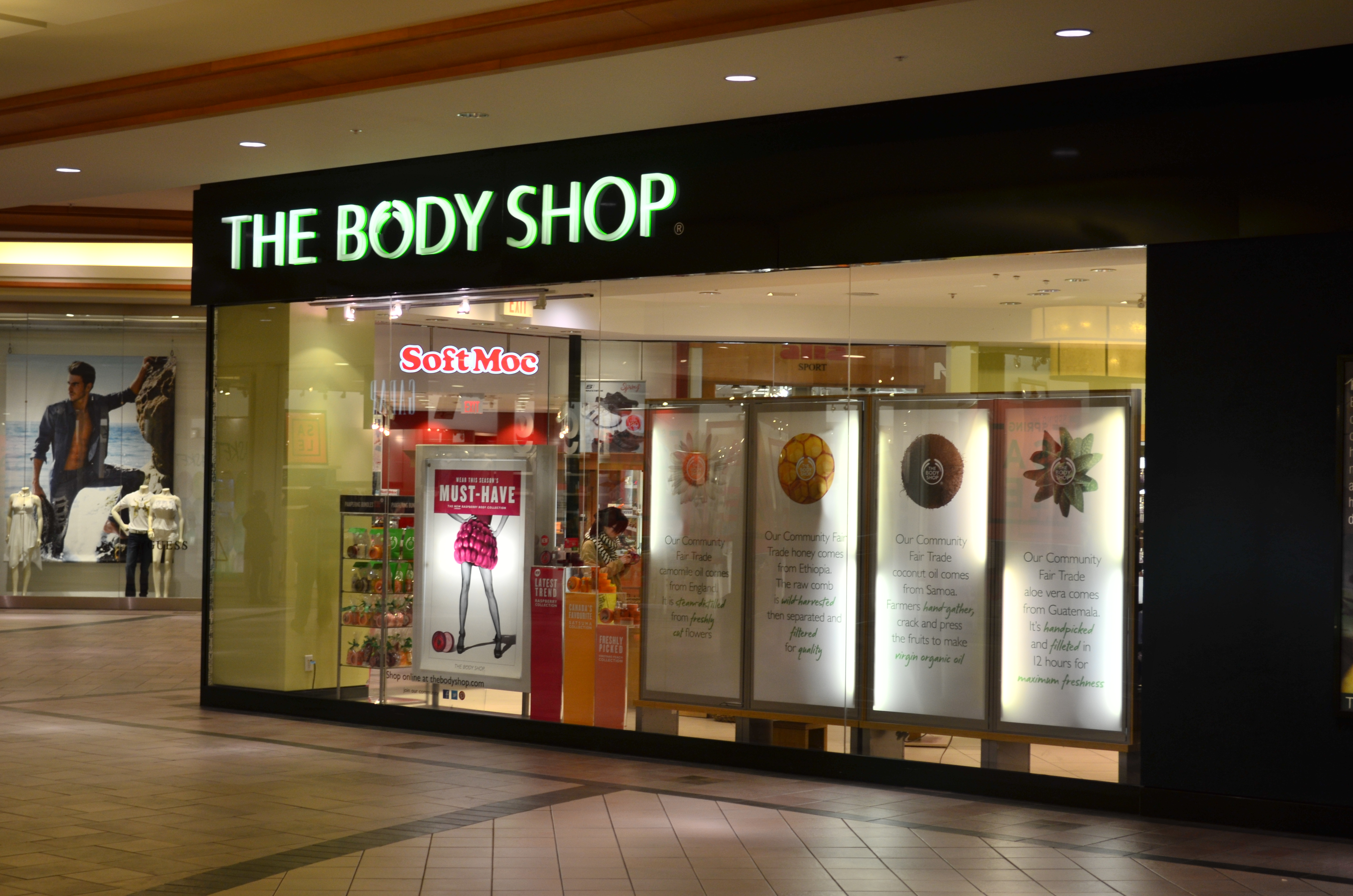 The Body Shop at Hillcrest Mall.